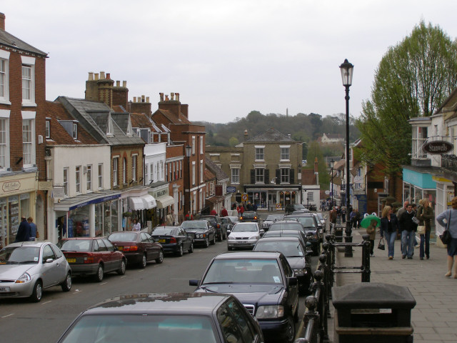 Lymington High Street. Looking east along the High Street in Lymington on a Sunday - still busy although few of the high street shops are open. In the distance is the top of the Walhampton Obelisk, presumably erected on that spot so that it was visible from Lymington's principal street.